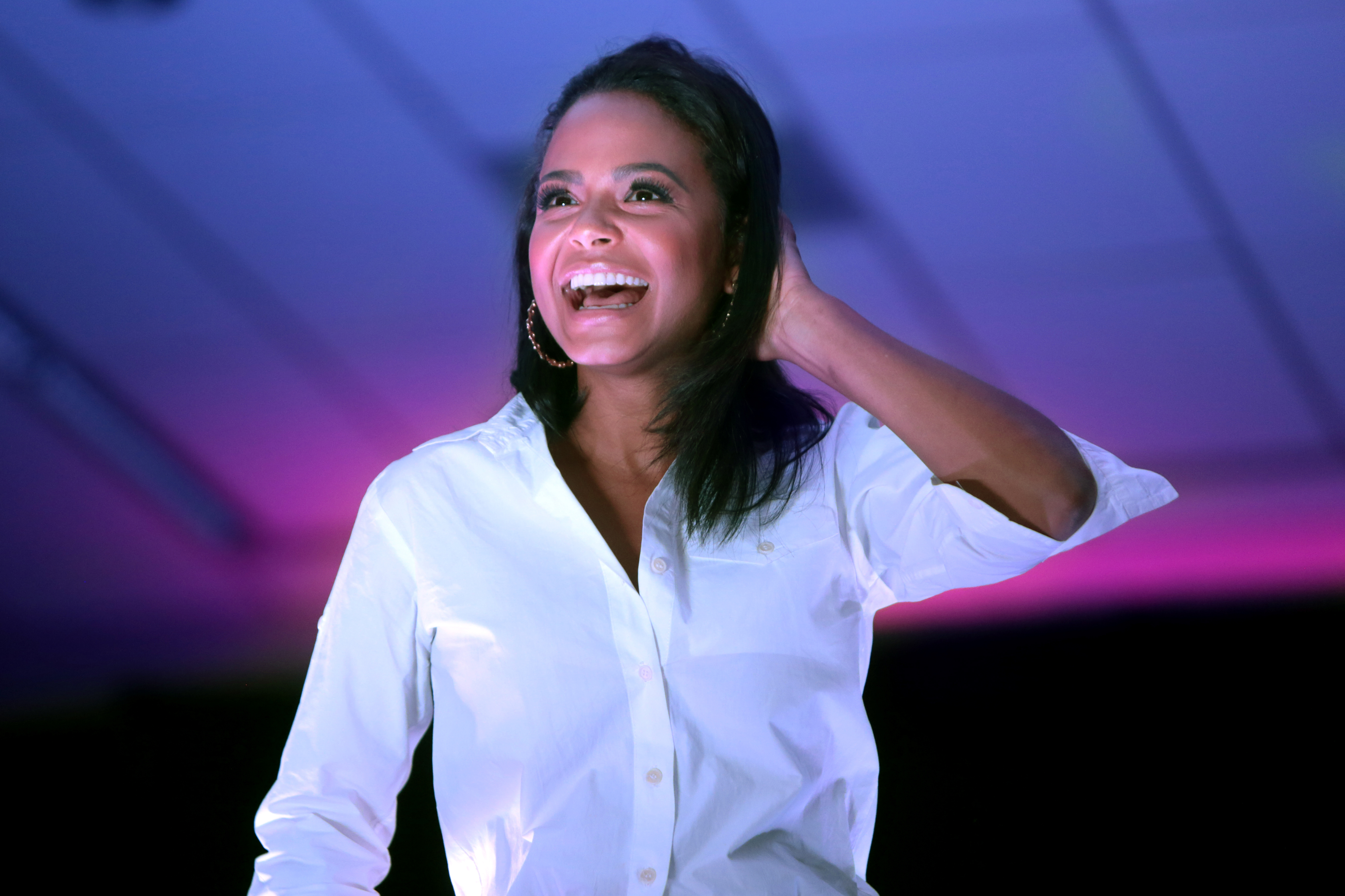 Christina Milian speaking at the 2016 Arizona Ultimate Women's Expo at the Phoenix Convention Center in Phoenix, Arizona.